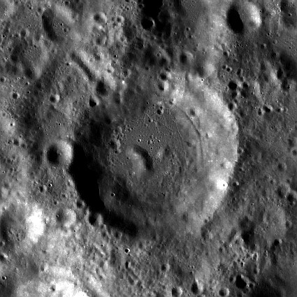 Hutton lunar crater LROC image